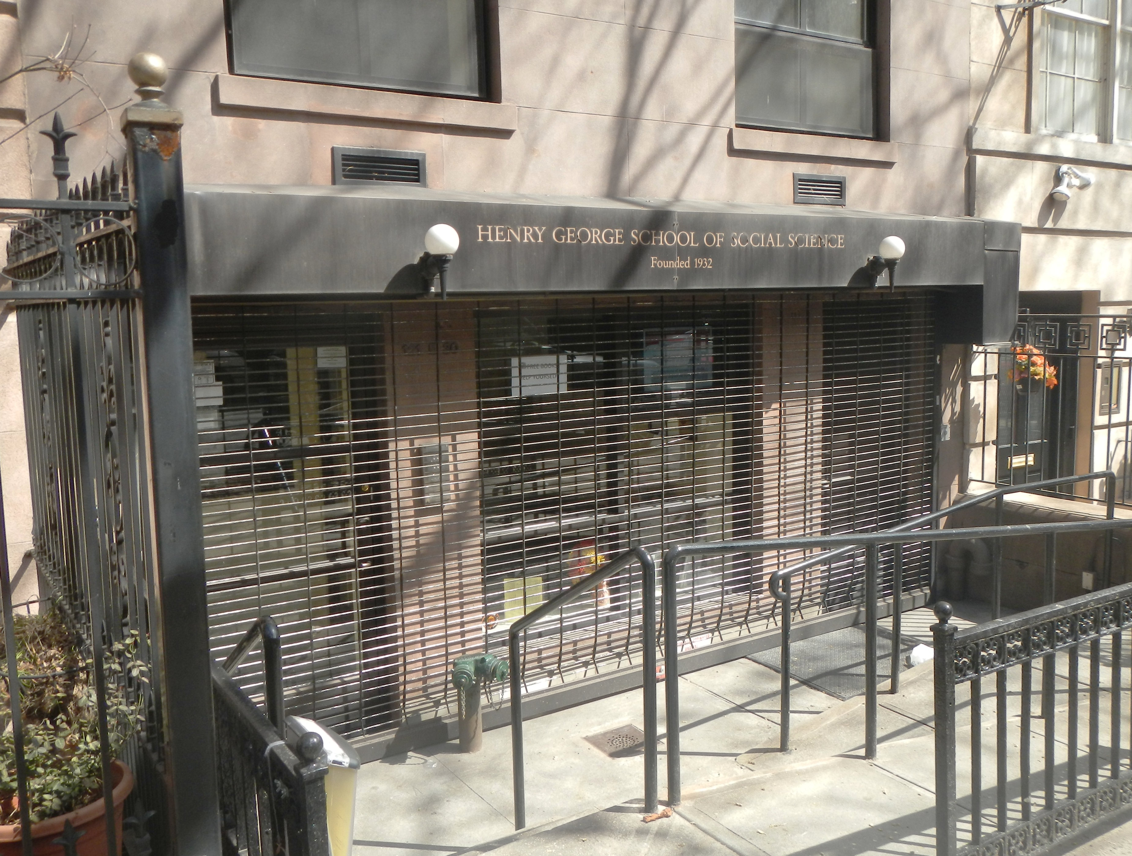 Looking east at school entrance on a sunny late morning.